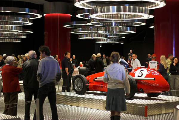 Picture form "RACING CARS - The Art Dimension" at ARoS, Aarhus, Denmark